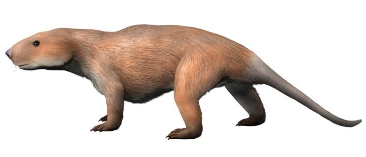 Life restoration of Riograndia guaibensis